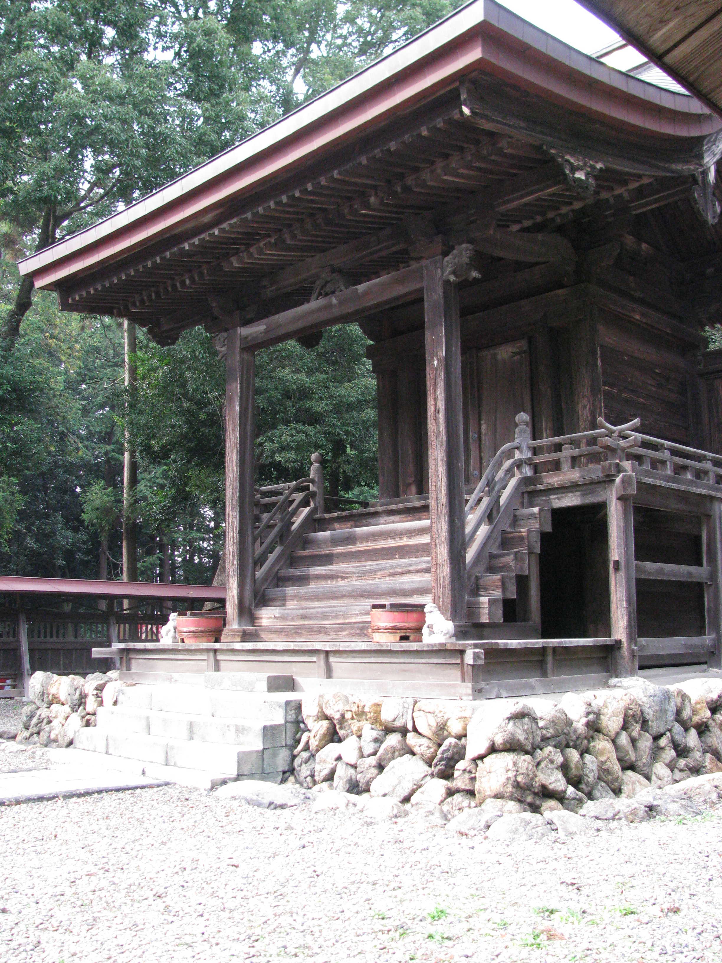 Izumo Iwai Shrine in Moroyama town, Saitama pref., Japan